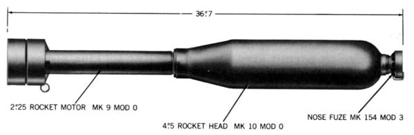 Illustration of the 4.5-Inch Beach Barrage Rocket ("Old Faithful") with Mk. 9 motor.